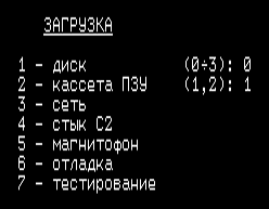 The boot menu of a Soviet educational computer UKNC, also known as Elektronika 0511. Screenshot taken with the emulator UKNCBTL.